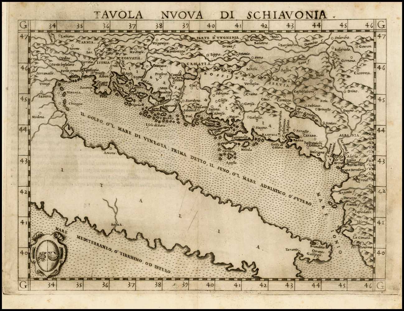 A New Map of Slavonia